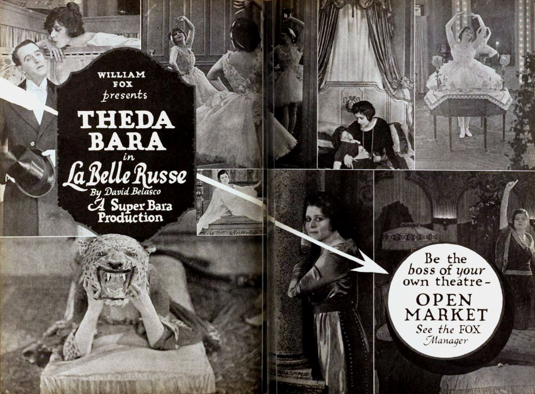 Advertisement for the American drama film La Belle Russe (1919) with Theda Bara, on pages 12 and 13 of the August 30, 1919 Exhibitors Herald.